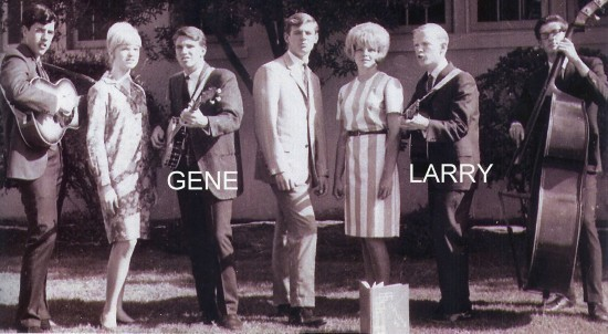 An early Folk group in 1962, including Larry Norman